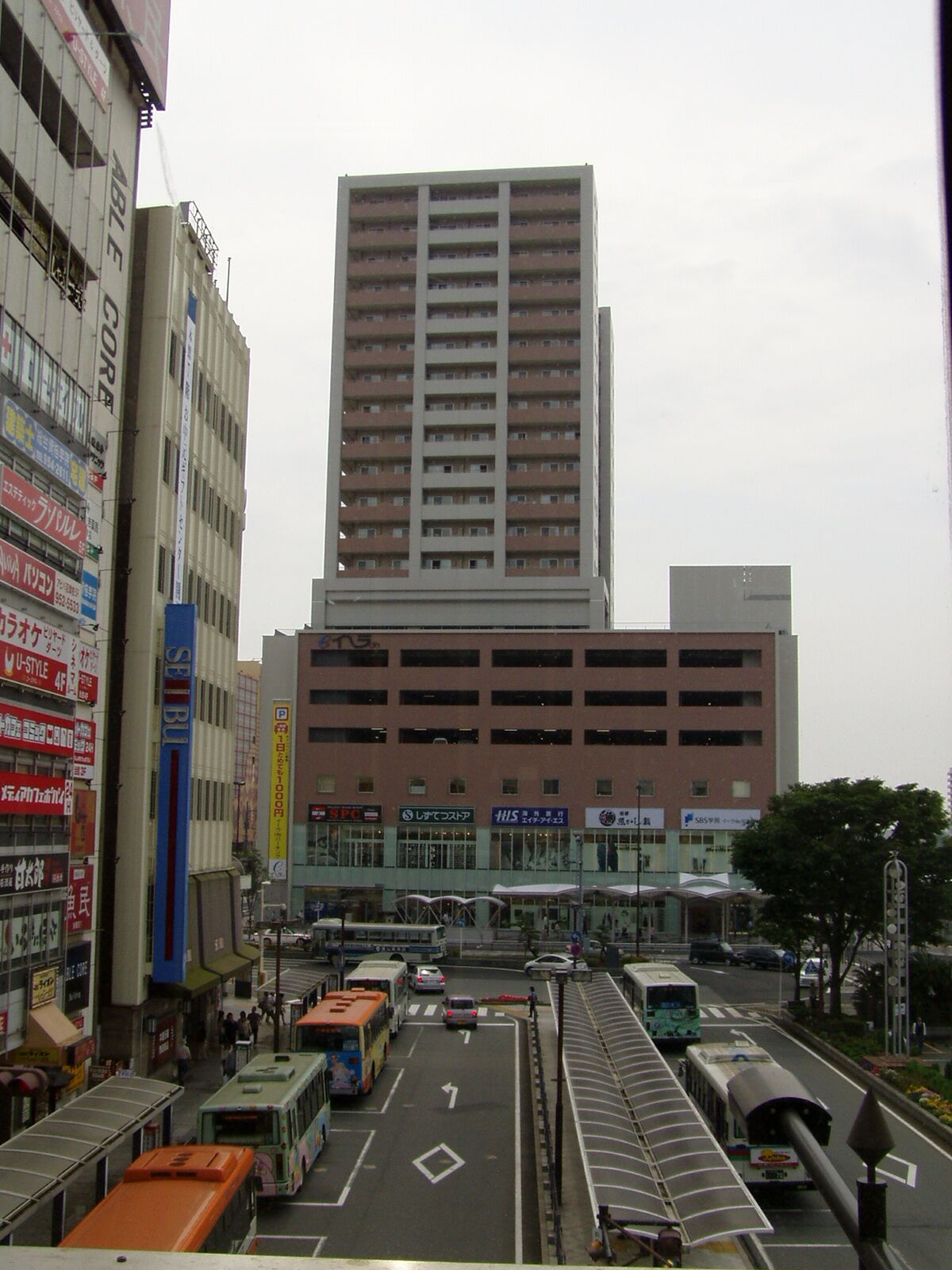 E-rade(Japanese"イーラde") in Numazu Shizuoka Japan.